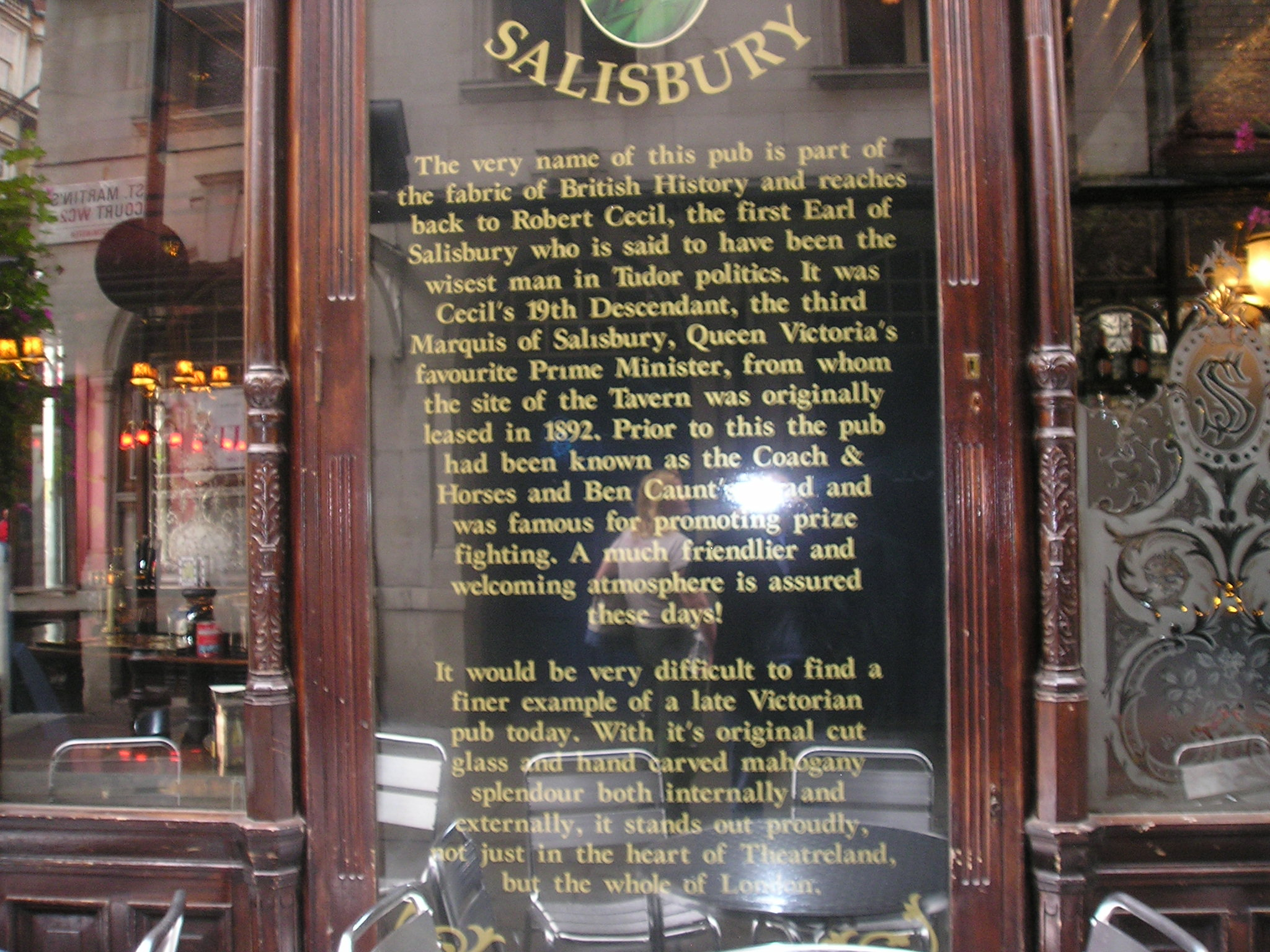 The Salisbury, St Martin's Lane, London